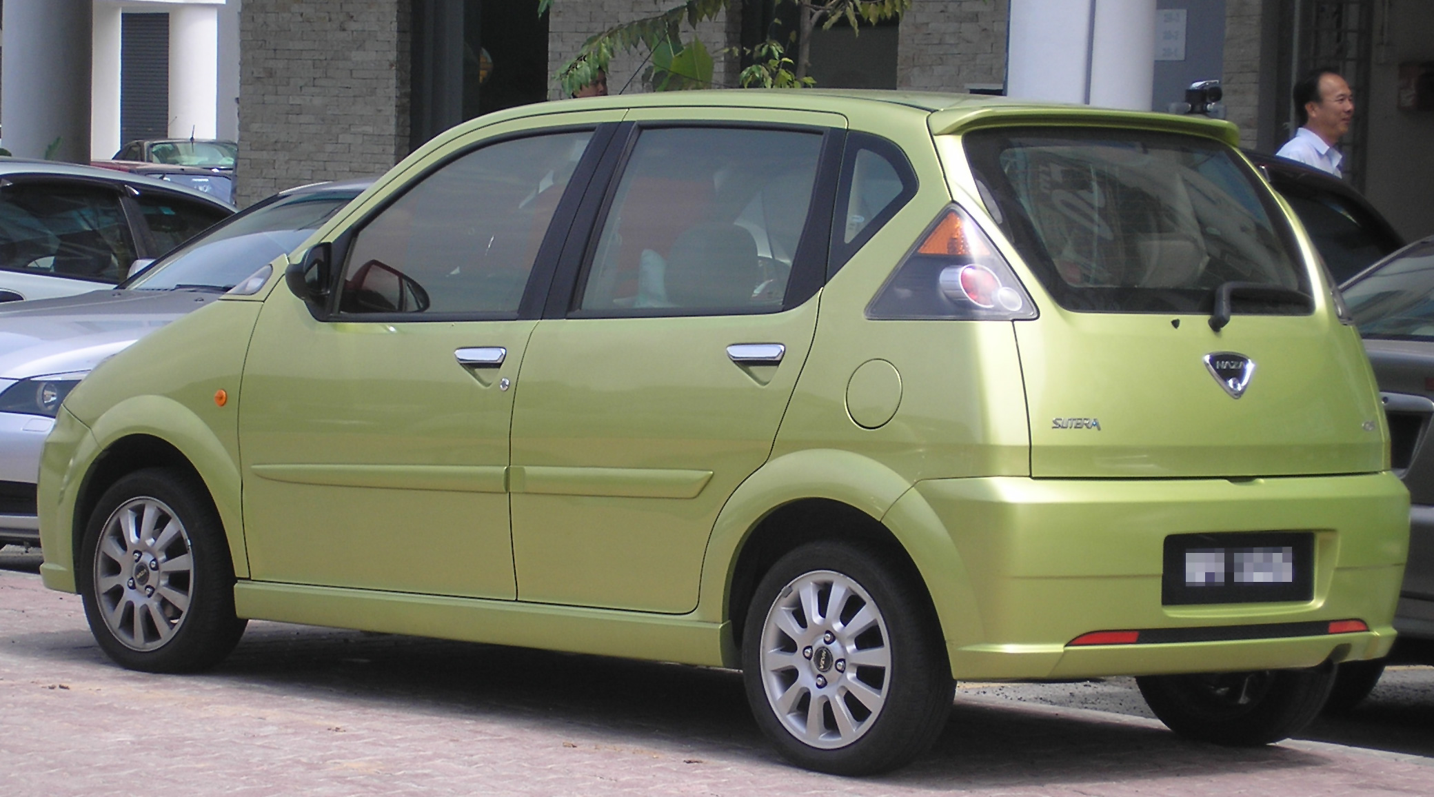 Rear quarter view of a first generation Naza Sutera, essentially a rebadged Hafei Lobo, in Serdang, Selangor, Malaysia.